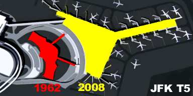 Diagram of JFK T5 — at John F. Kennedy International Airport. With the 1962 TWA Flight Center (red), and 2008 John F. Kennedy International Airport Terminal 5 (yellow).